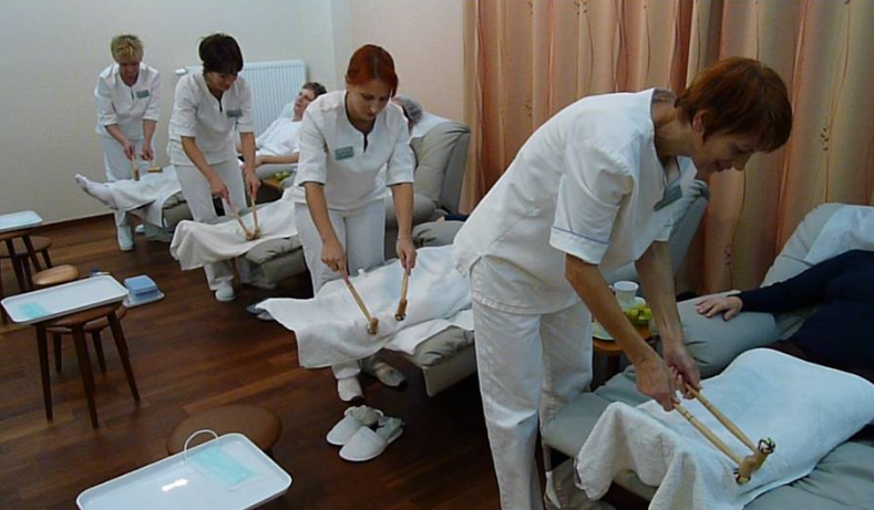 Program NOVITA at Spirala Center. The program is composed of message transmition (mainly trough the speech) from LT instructor to individual, which is also massaged by the LT therapeut.